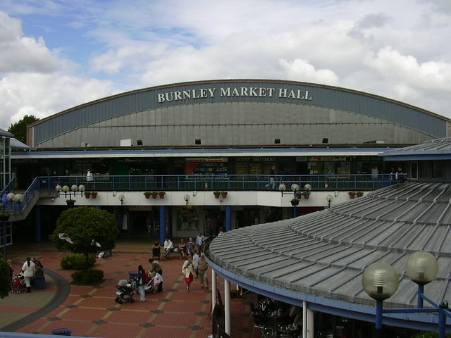 Market Hall, near to Burnley, Lancashire, Great Britain.